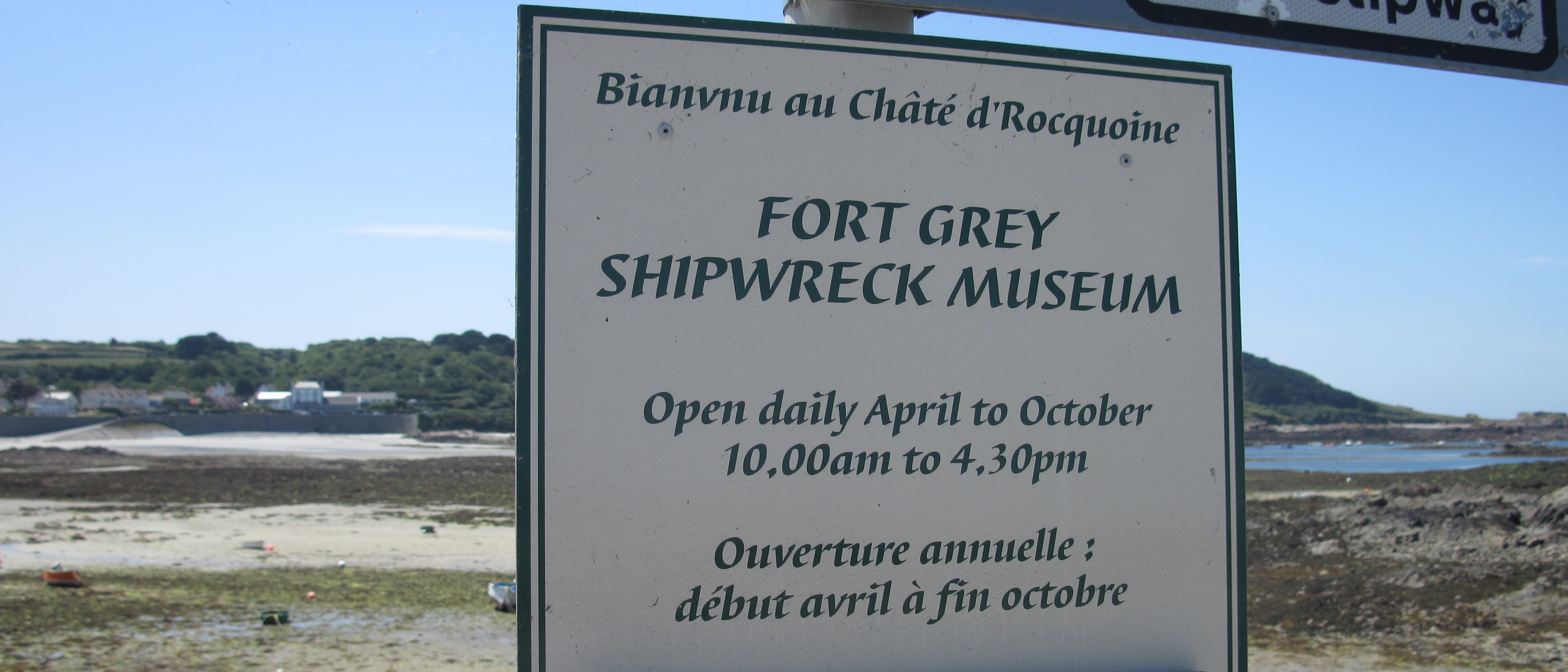 Guernsey, June-July 2011, Fort Gray, info board